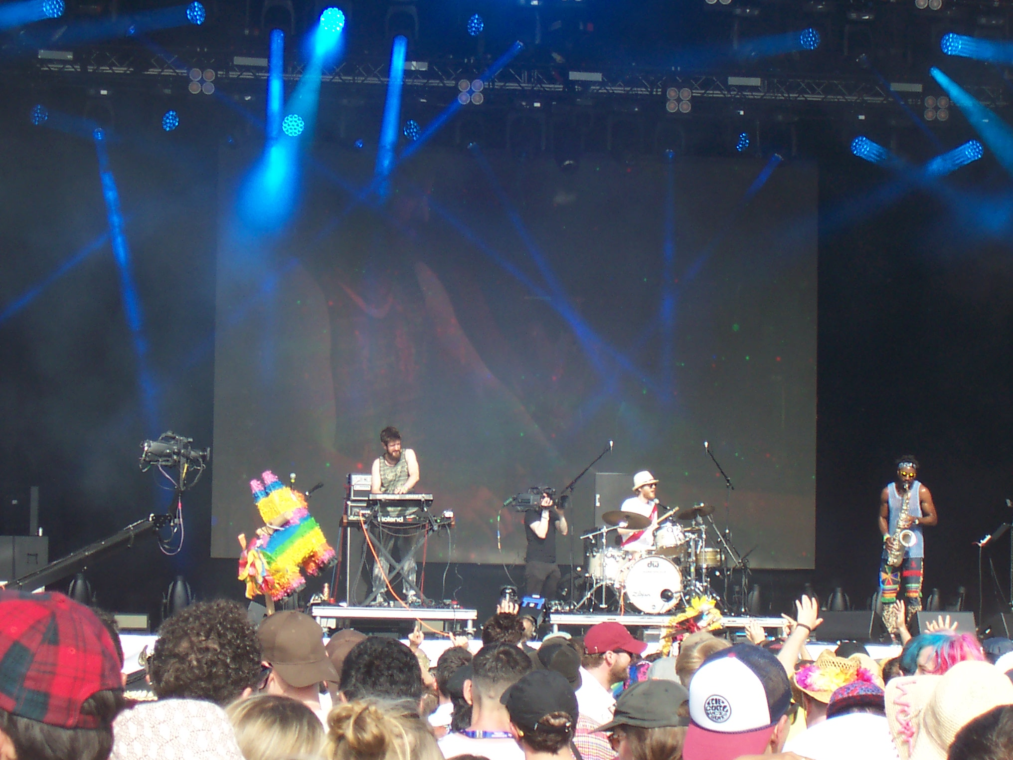 The Comet Is Coming on the West Holts stage at Glastonbury Festival 2019